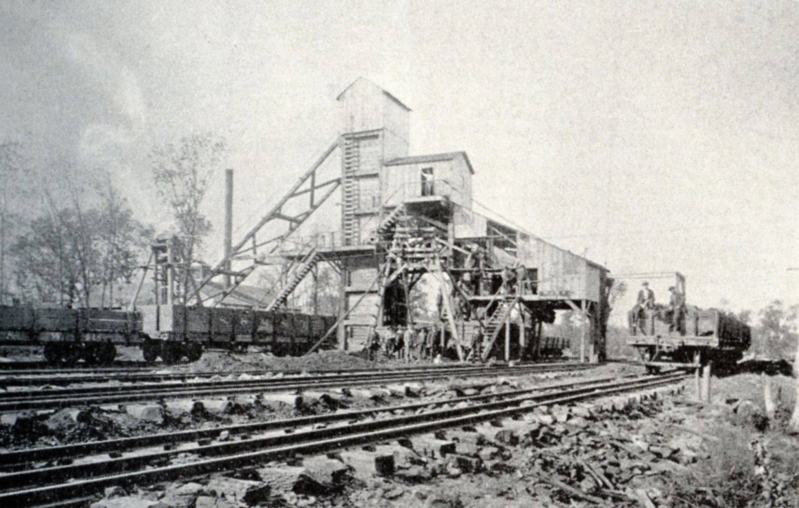 Shaft number 1 of the Lost Creek Fuel Company, south of Oskaloosa, Iowa. This mine was opened in 1895 and employed 215 men. The tall structure is the headframe of the mine shaft, with the attached tipple slanting down to the tracks. This mine was served by the Iowa Central Railway and the Burlington and Western Railway; the latter was a narrow gauge line, and the entire rail yard serving the mine is built with dual gauge track. The coal cars shown are all gondolas built from flatcars with attached sides. The car on the right is a standard gauge car, the ones on the left are narrow gauge. This image has been edited to remove speckles from the sky, lightly blurred to mute the halftone texture, and then rotated to make the mine shaft vertical.